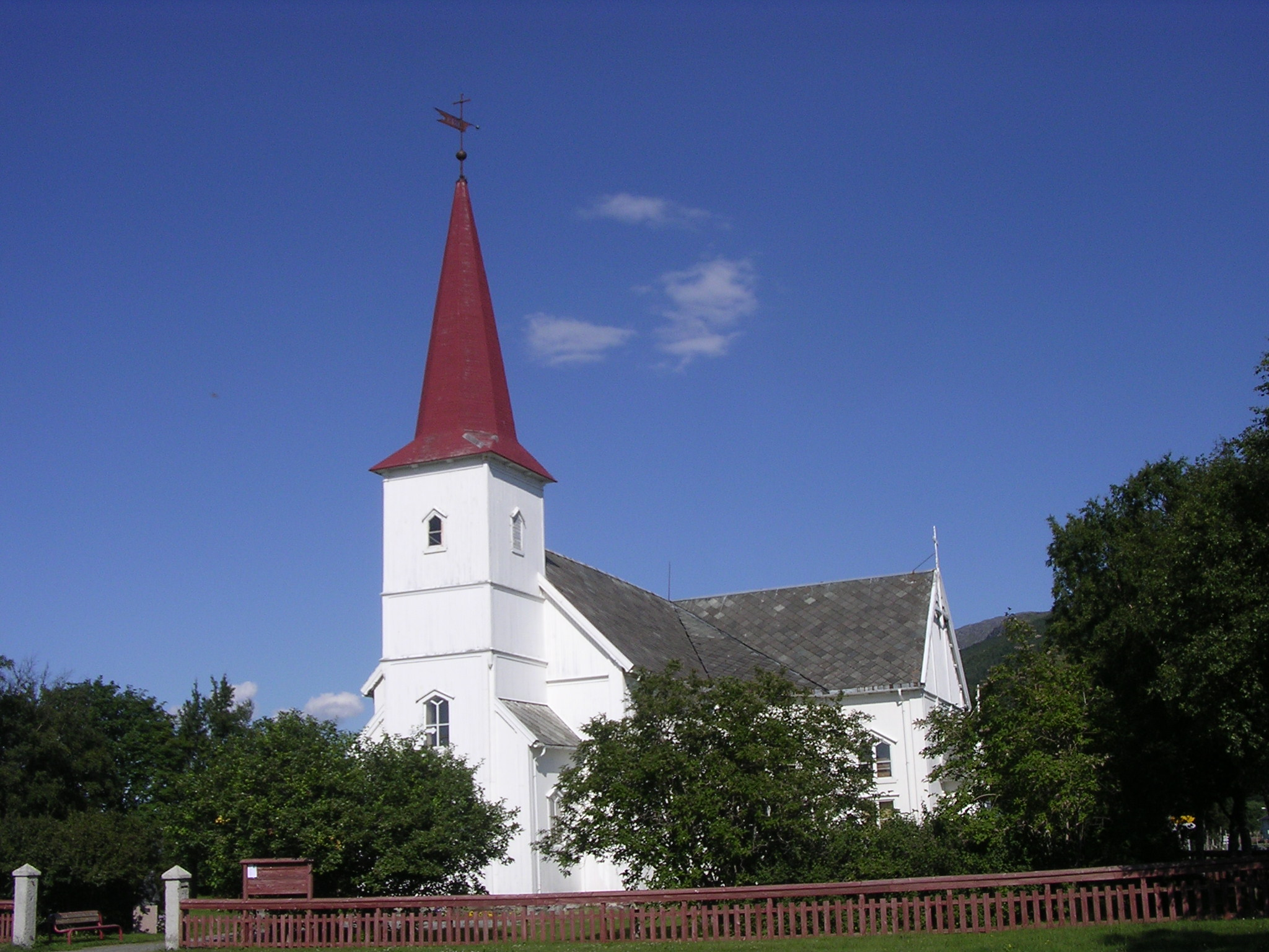 Church of Nesna, Kirken i Nesna